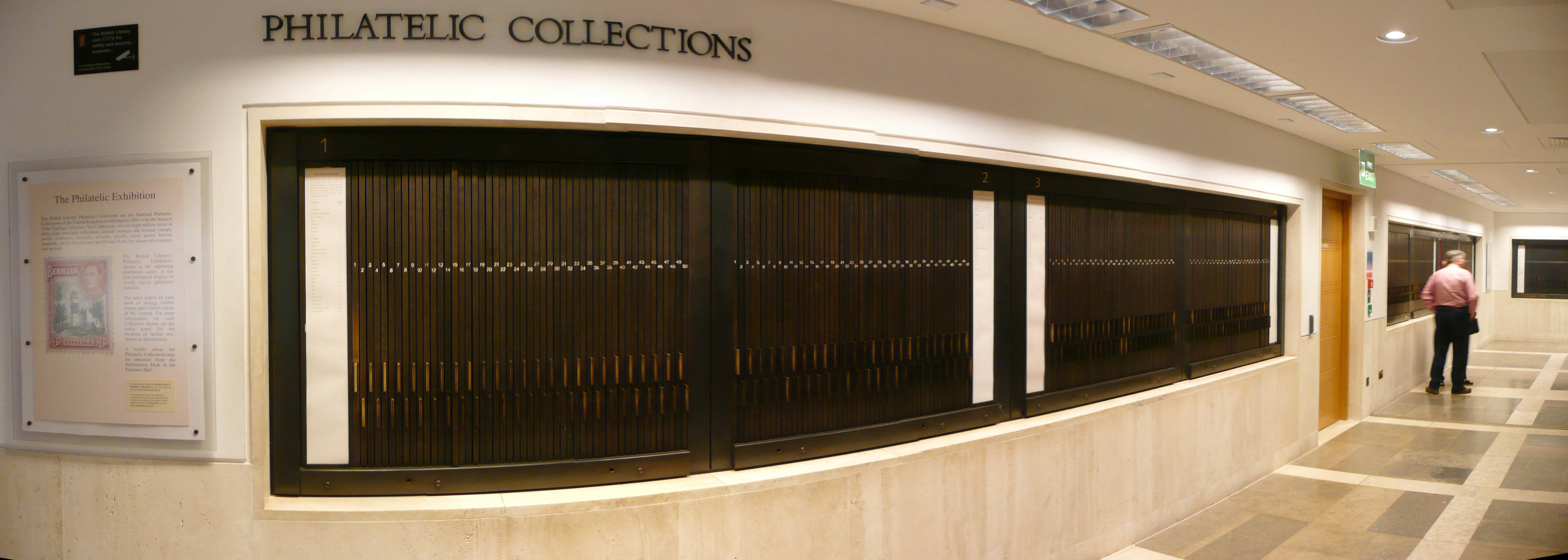 Philatelic collections, British National Library, London. Panels that you can slide out of the wall and look at stamp collection. Closed on Saturdays.